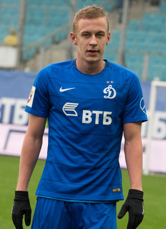 Nikolay Obolsky with FC Dynamo Moscow after the game against FC SKA-Khabarovsk.